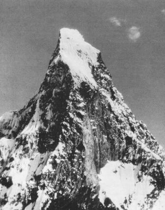 One of the most beautiful summits in the world, the Miter Peak, 6023m, first climb by Ivano Ghirardini in June 1980, alone.